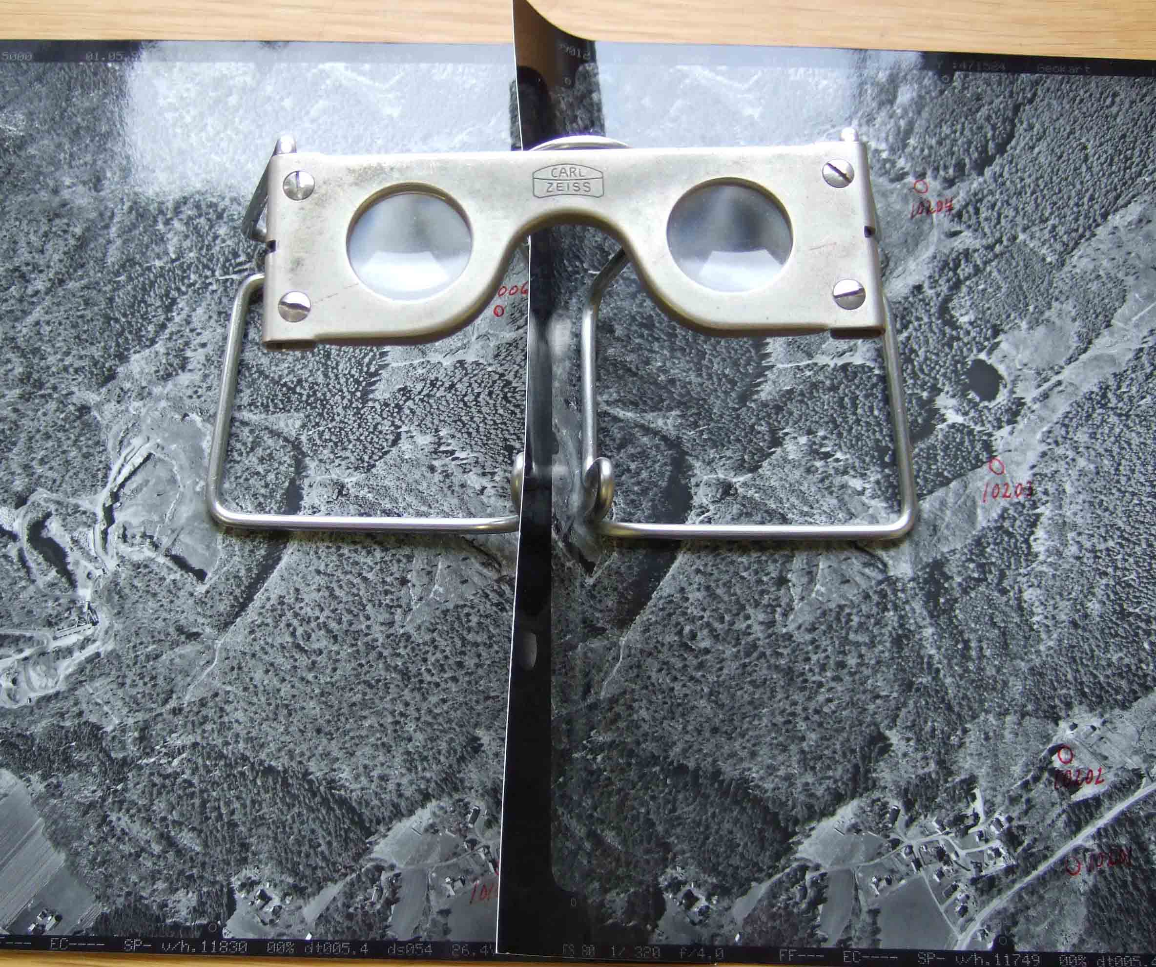 Field Stereoscope. Own photo 2007-02-08 Find more information about this fascinating art at